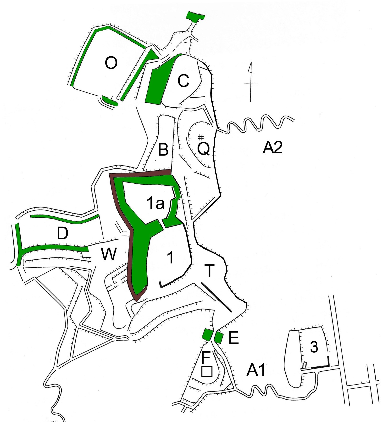 Layout of old Karasuyama castle